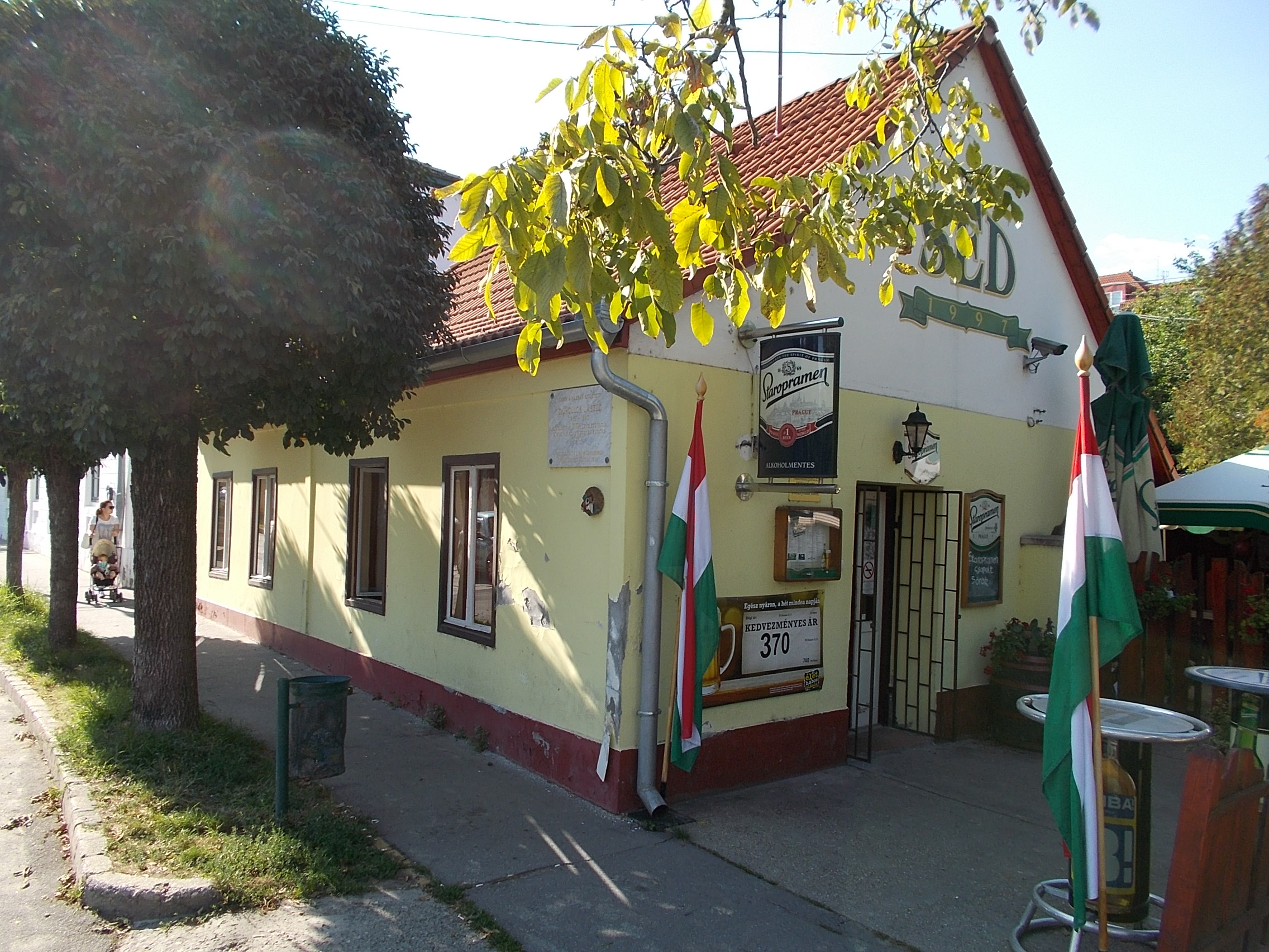 Sed Beer Garden. - 11 Babits Street, Szekszárd, Tolna County, Hungary.